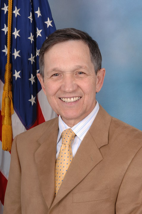 Dennis Kucinich official photo.